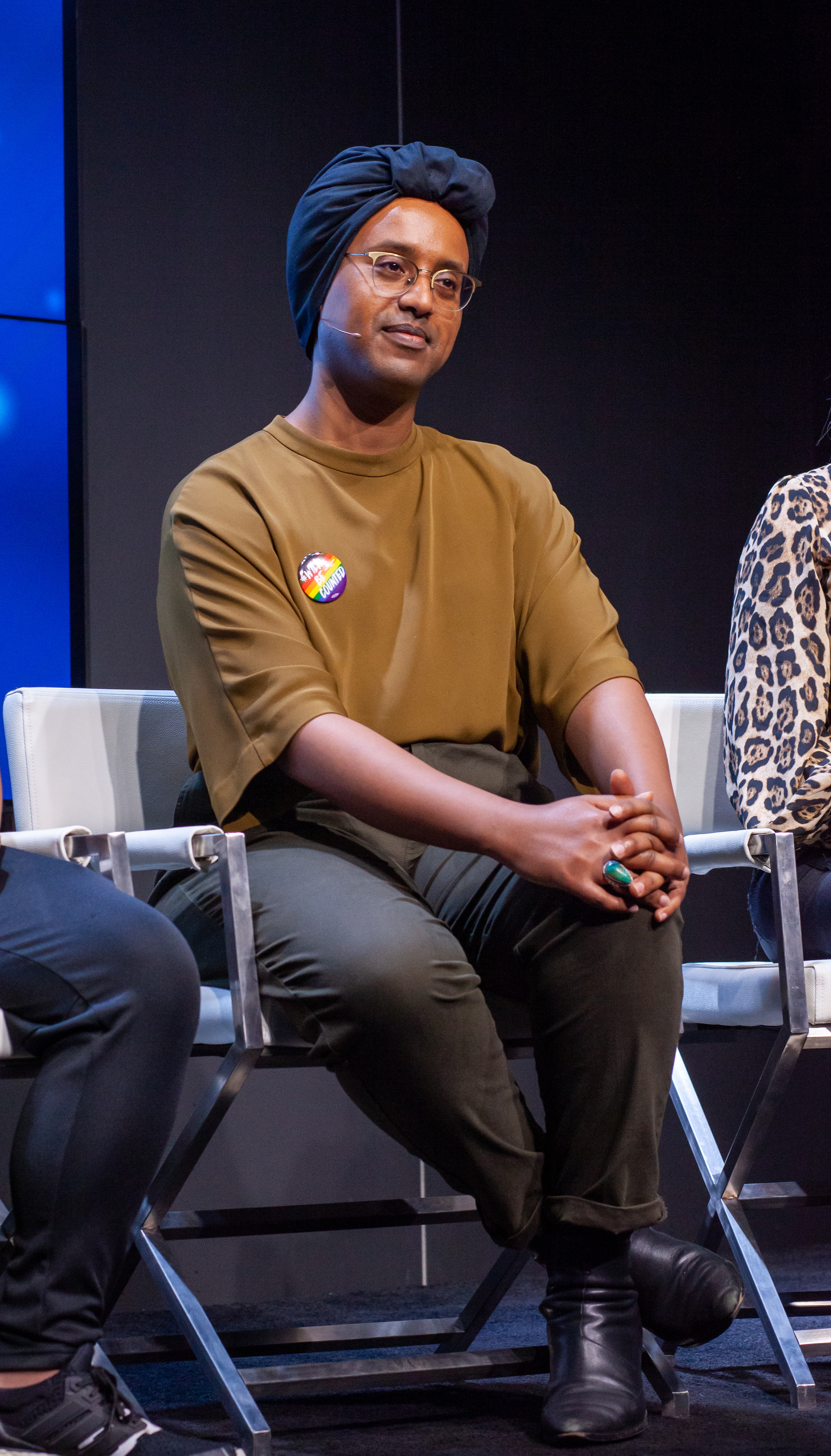 Honey Mahogany discusses The 2020 Census and the LGBTQ Community in a panel on the Michelle Meow Show at the Commonwealth Club, San Francisco.